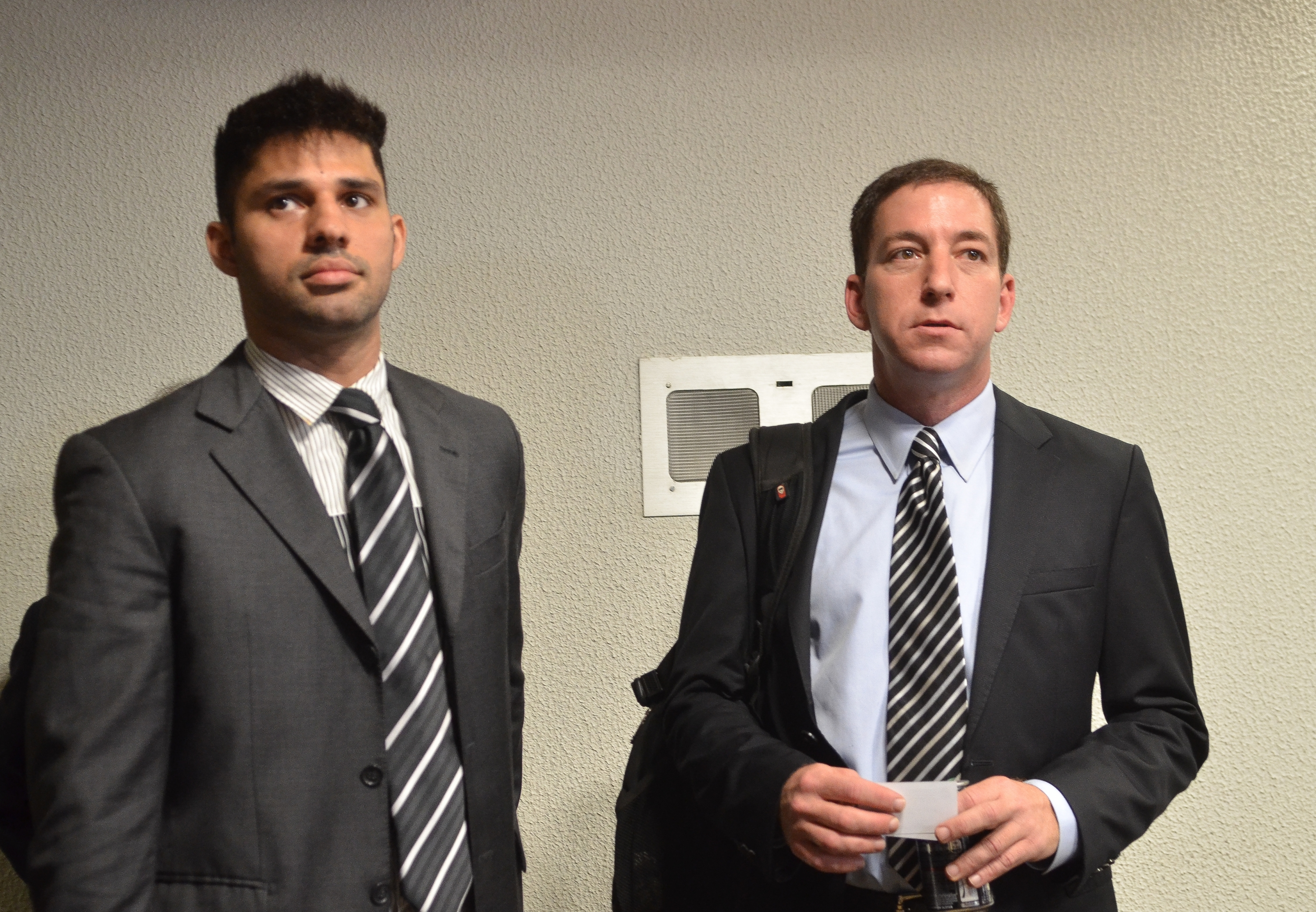 Brasília – The Espionage Parliamentary Inquiry Comission (CPI) hears journalist Glenn Greenwald and his partner, Brazilian David Miranda, on the accusations of espionage on behalf of the U.S. government towards Brazil. L/R: David Miranda and Glenn Greenwald.